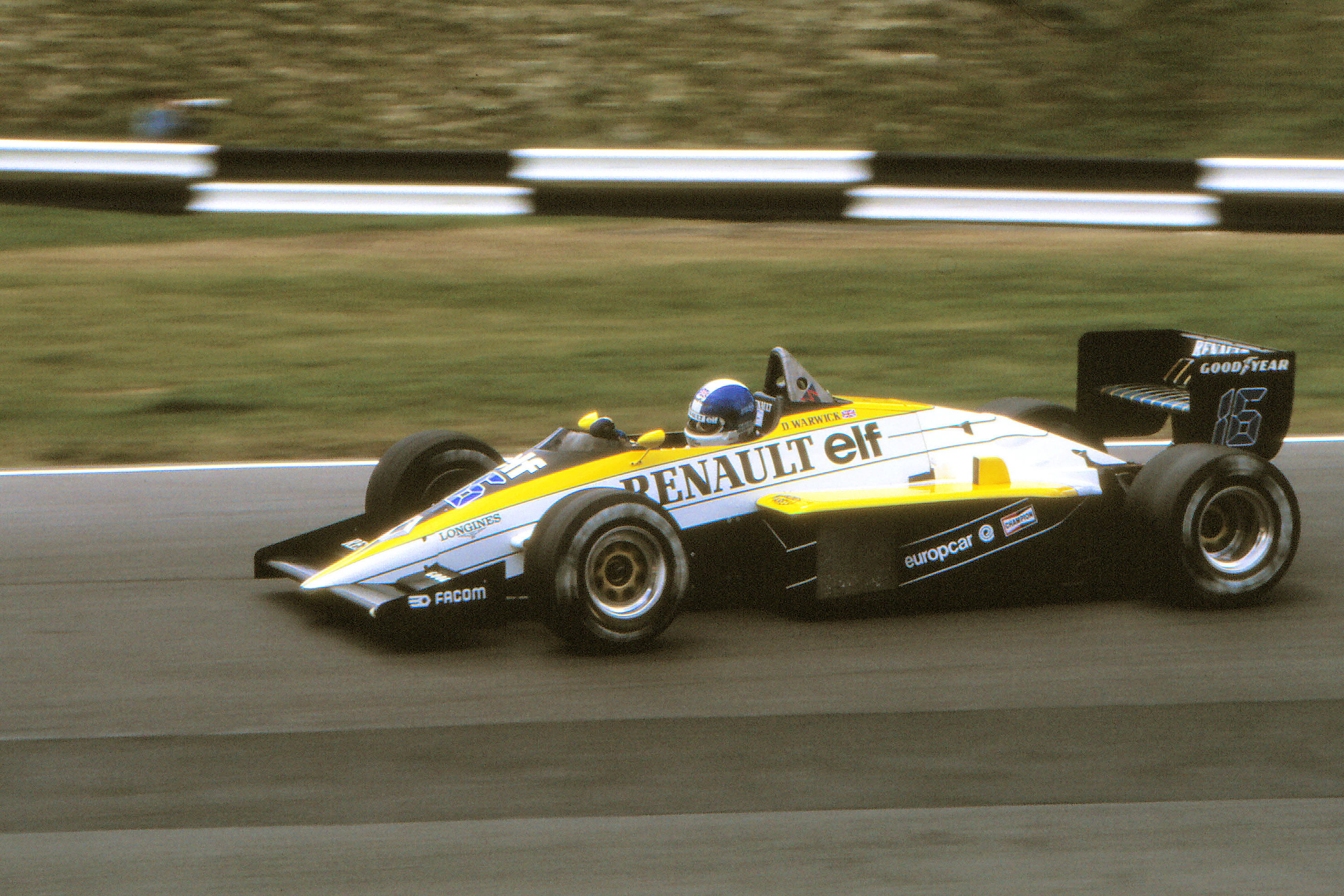 Derek Warwick during practice for the 1985 European Grand Prix